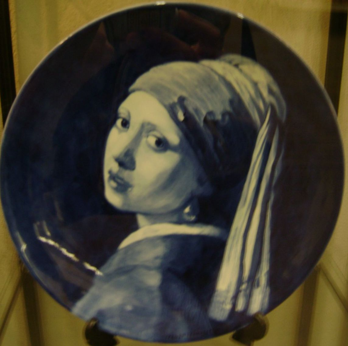 Blue Ceramica from Delft, shown the famous painting Girl with a Pearl Earring of Johannes Vermeer